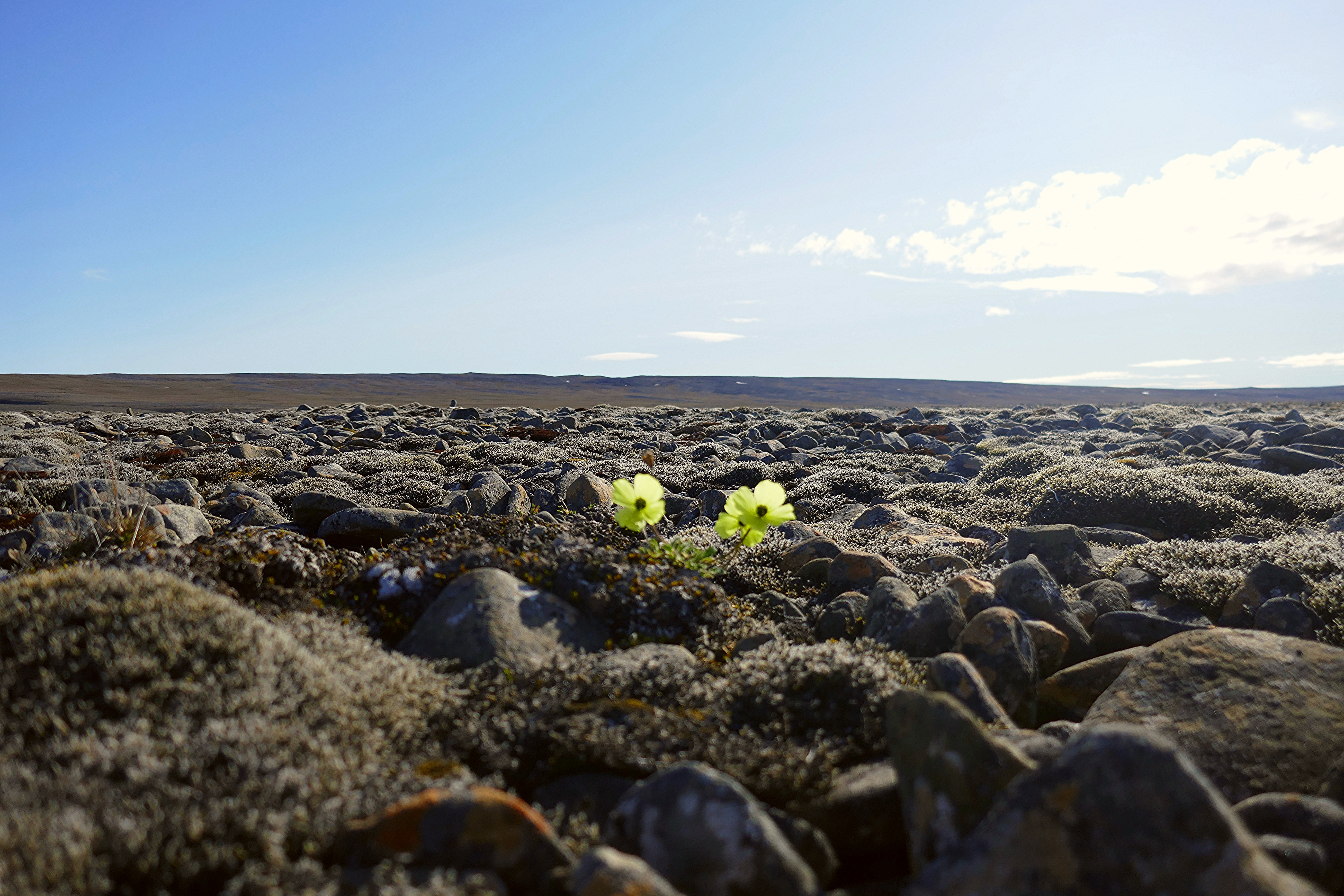 Qausuittuq National Park, Bathurst Island, Nunavut, Canada - July 2016